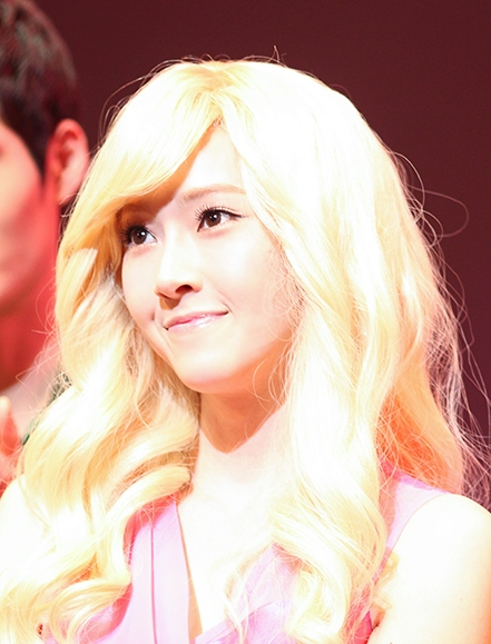 Jessica Jung at musical Legally Blonde on February 13, 2013.